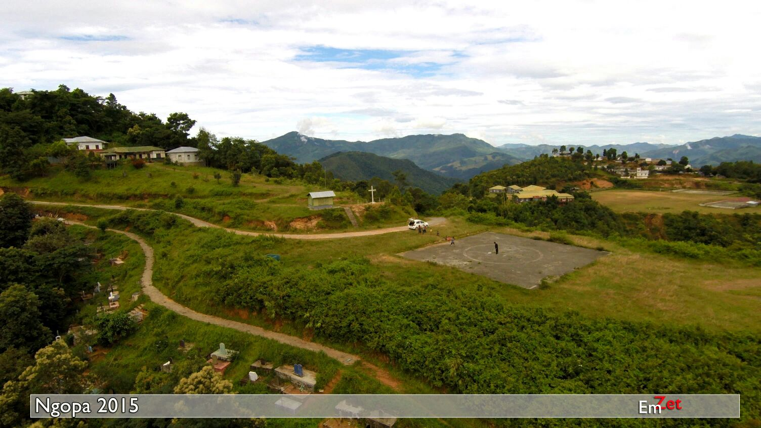 Helipad, Ngopa